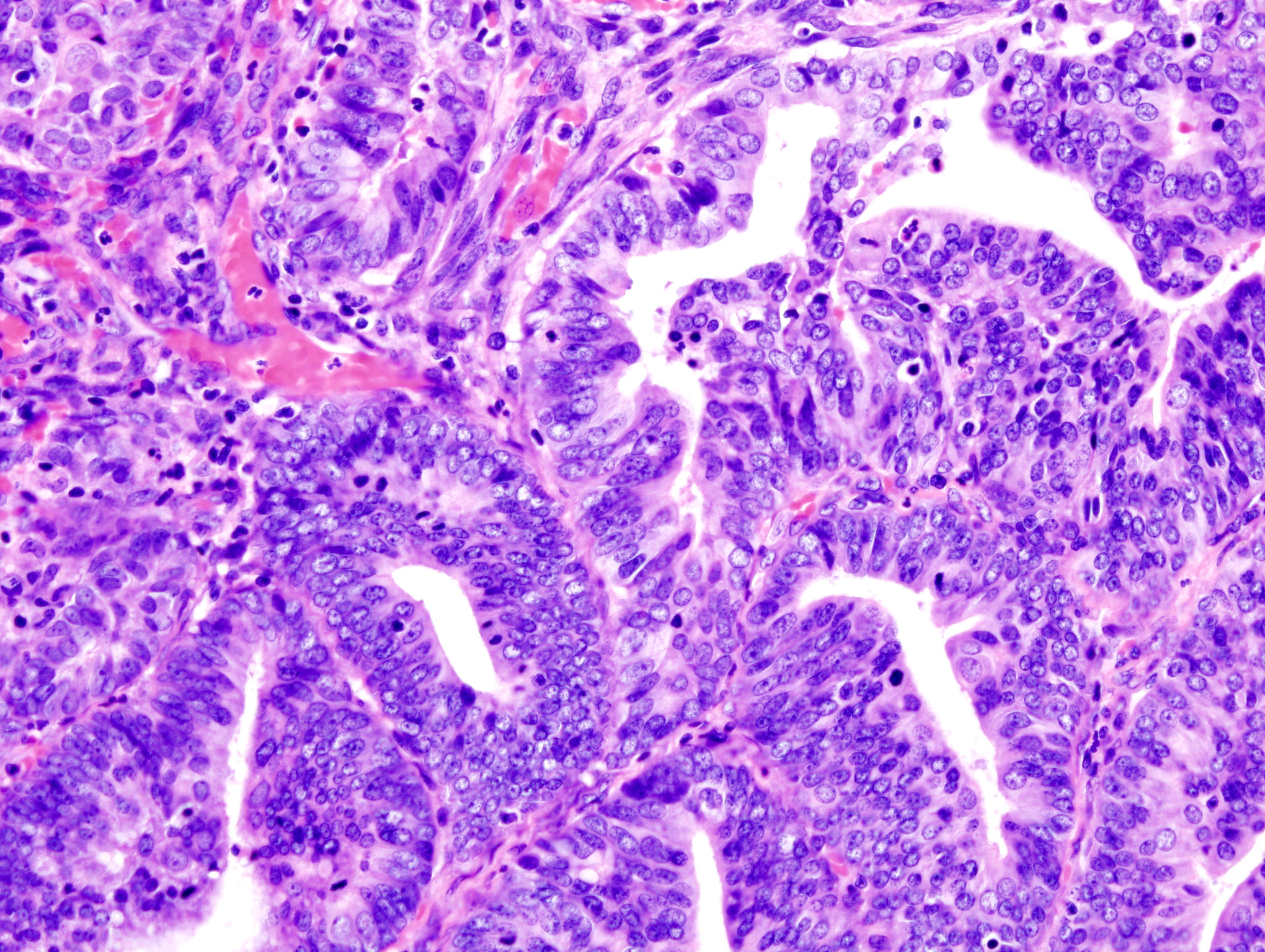 Histopathologic image of endometrial adenocarcinoma in biopsy specimen. Hematoxylin-eosin stain.